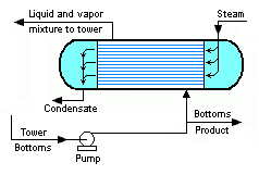 I drew this diagram of a forced circulation reboiler, in use on an industrial distillation tower, using Microsoft's Paint program. I am User:mbeychok and the date is November 20, 2006. This image has also been uploaded into the English Wikipedia.